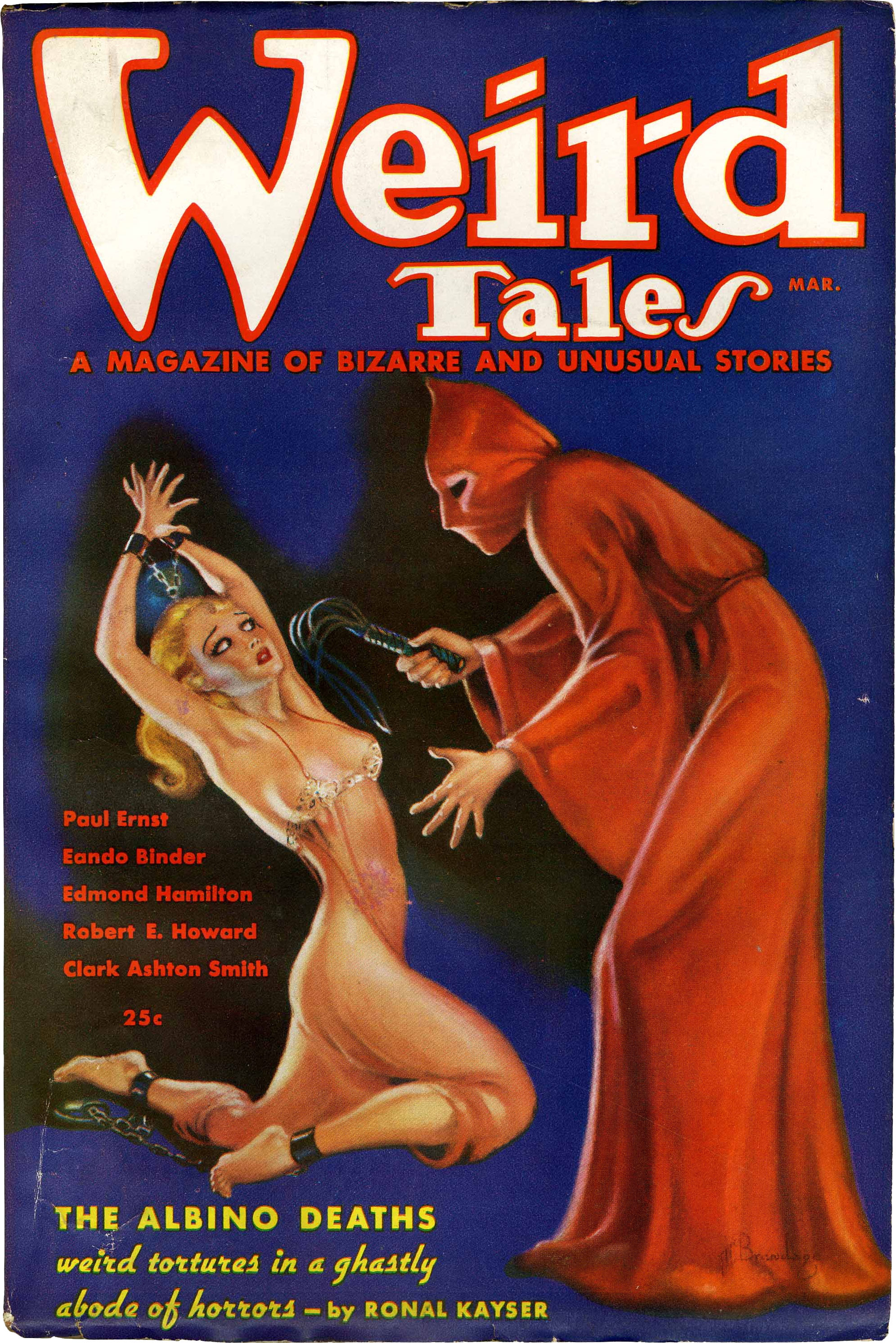 Cover of the pulp magazine Weird Tales (March 1936, vol. 27, no. 3) featuring The Albino Deaths by Ronal Kayser. Cover art by Margaret Brundage.